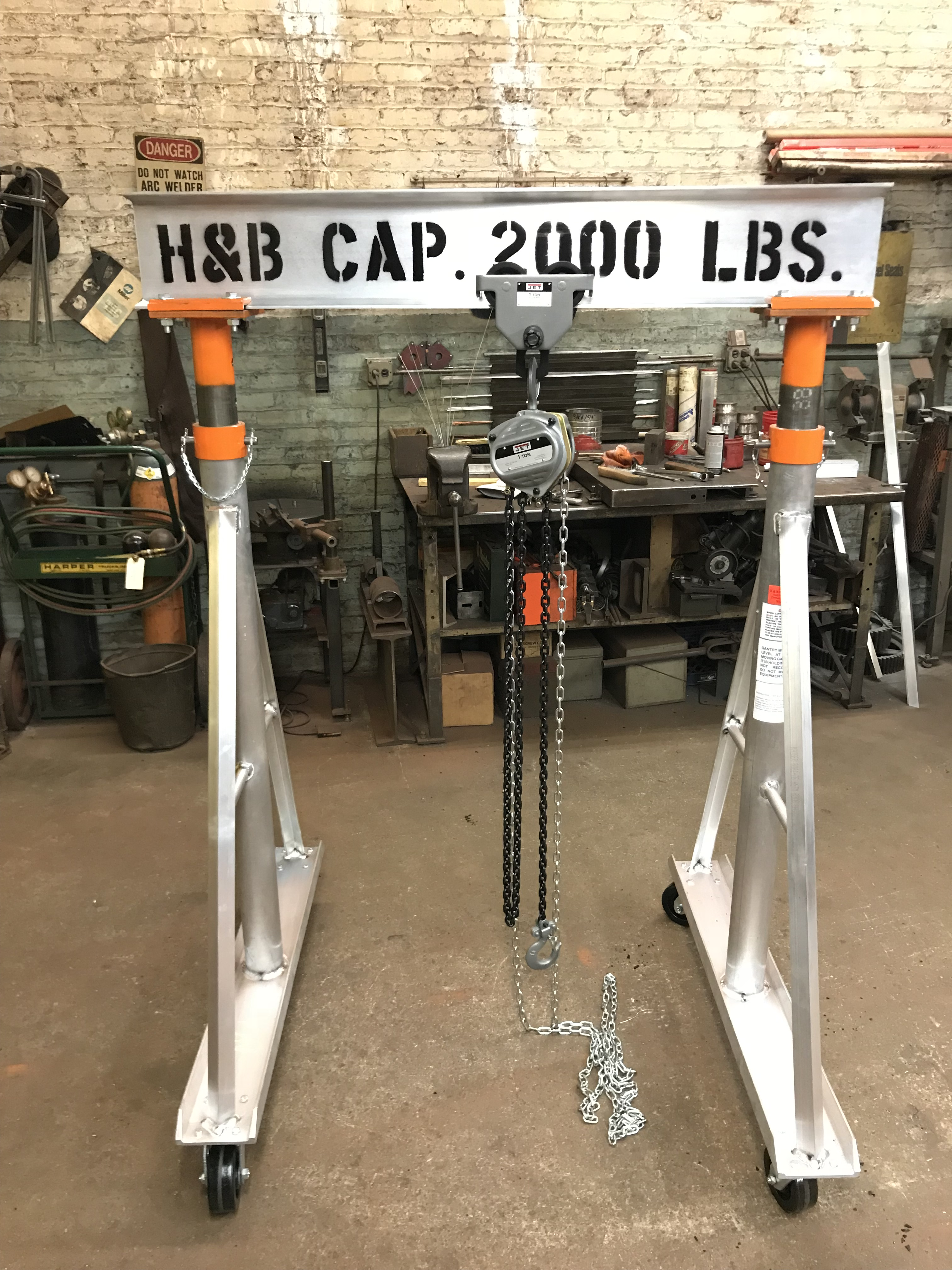 Portable 1 ton aluminum gantry crane manufractured by H&B Machine Corporation